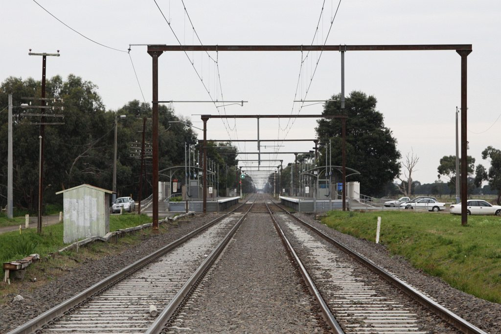 Officer railway station viewed from the city end